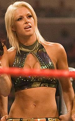 Maryse Ouellet at Divas WWE Monday Night Raw 800th Tampa